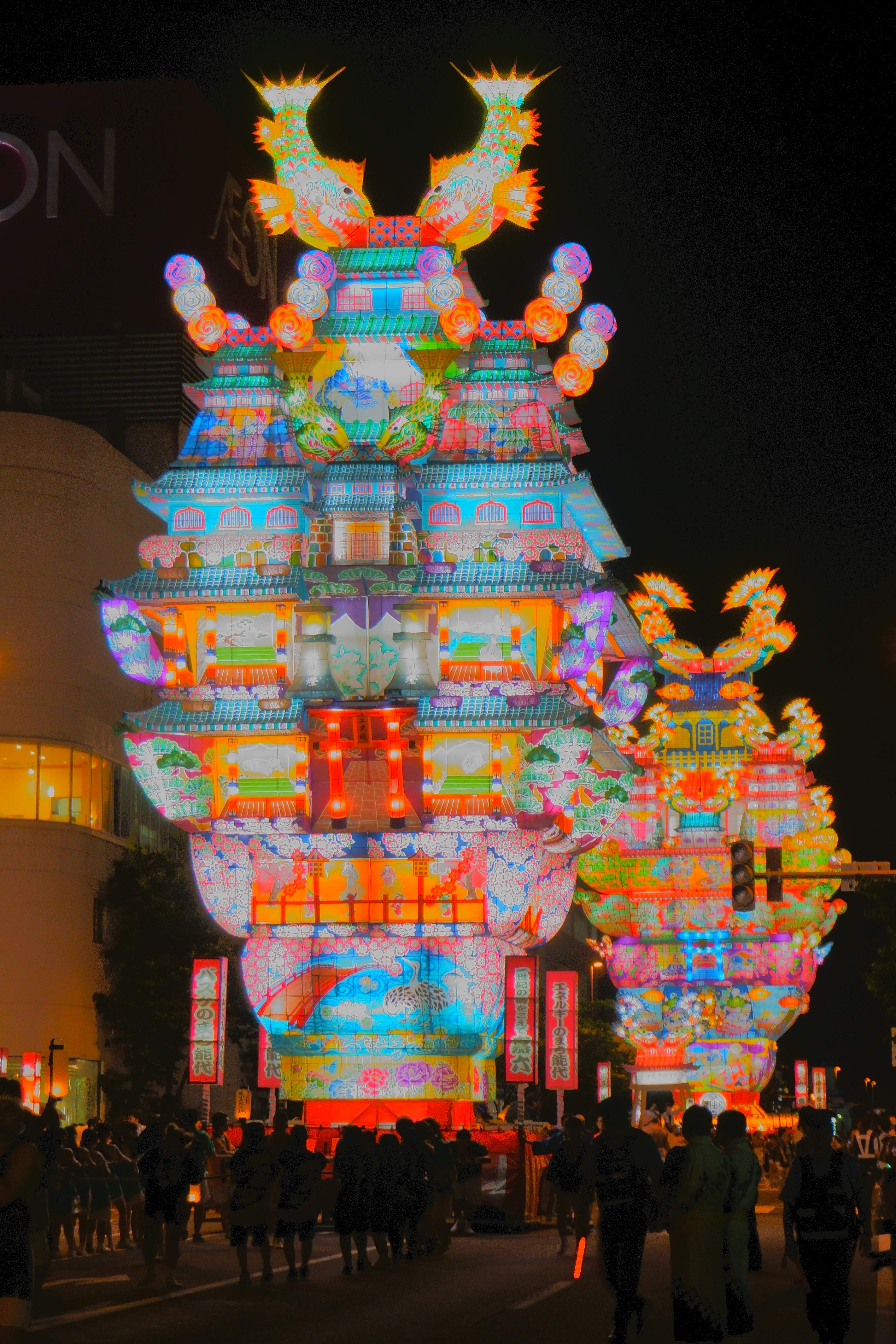 The "Tenkū-no-Fuyajō" is a tanabata festival held in Noshiro City, Akita, Japan. These floats are the tallest floats in Japan. This photo has been taken in the country: Japan